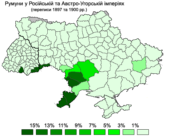 Romanians and moldovans in ukrainian parts of Russian and Austro-Hungarian empires, 1897 and 1900 censuses